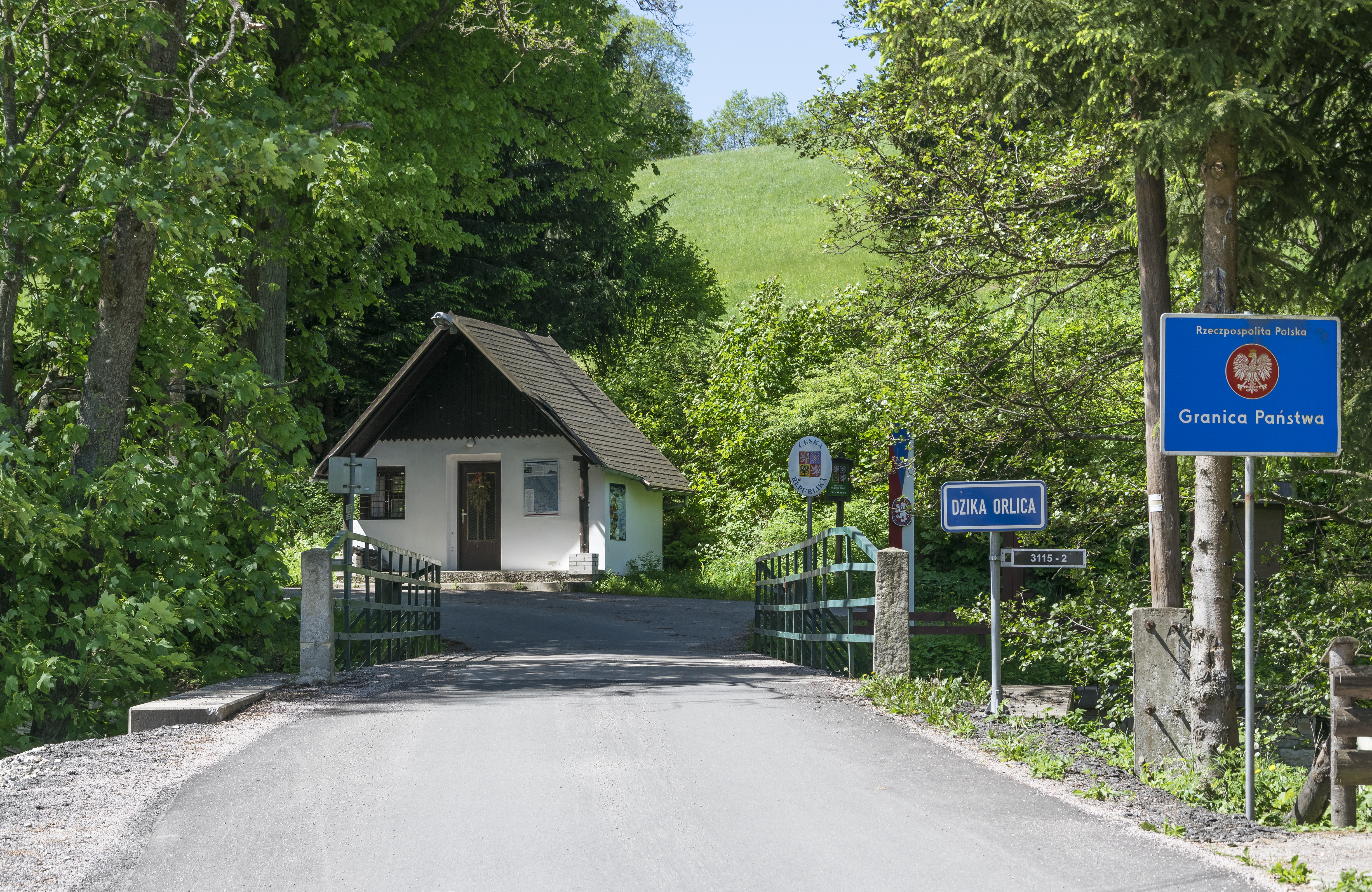 Niemojów-Bartošovice v Orlických horách border crossing